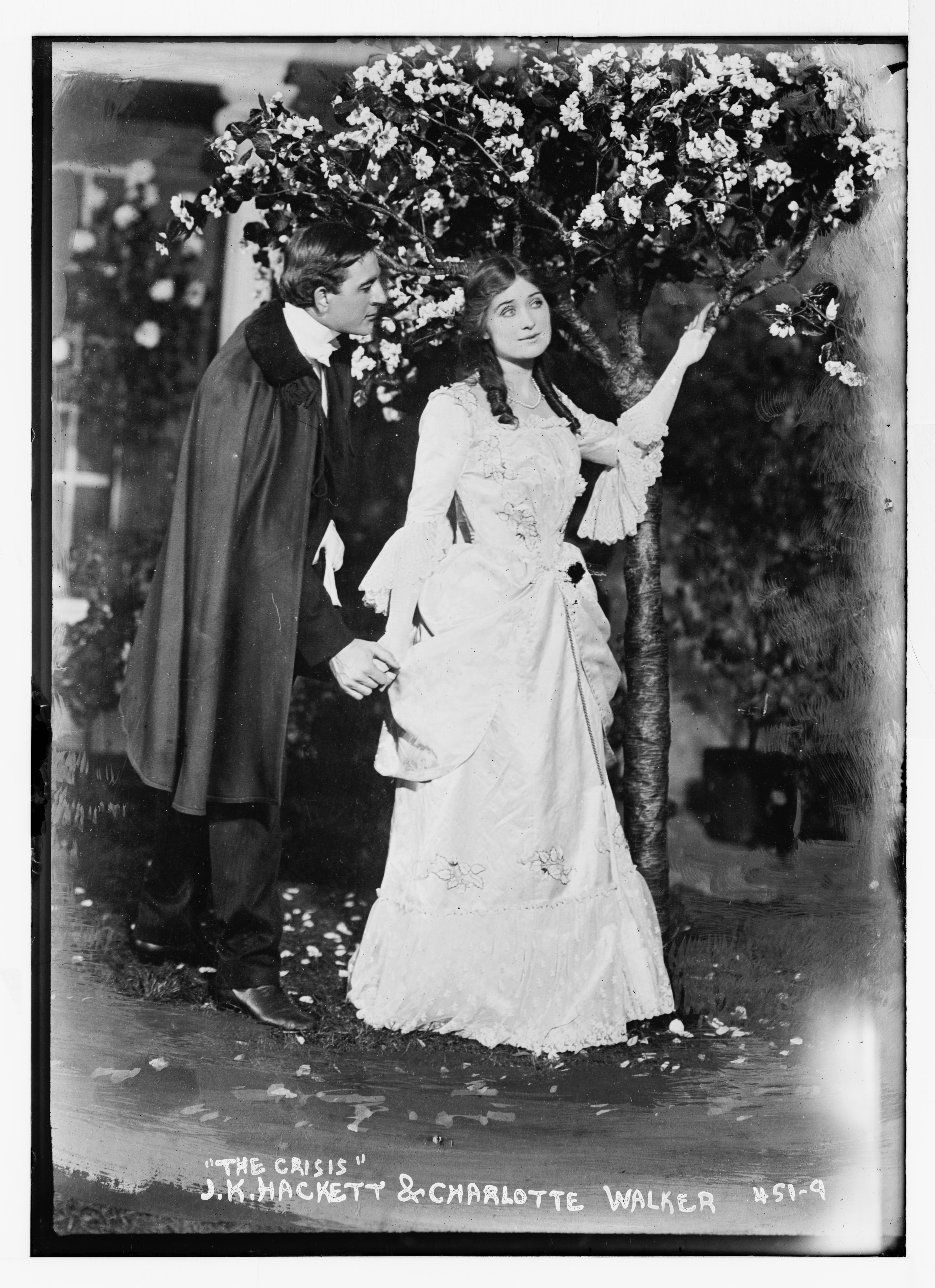 Title: J.K. Hackett & Charlotte Walker, "The Crisis" Abstract/medium: 1 negative : glass ; 5 x 7 in. or smaller.